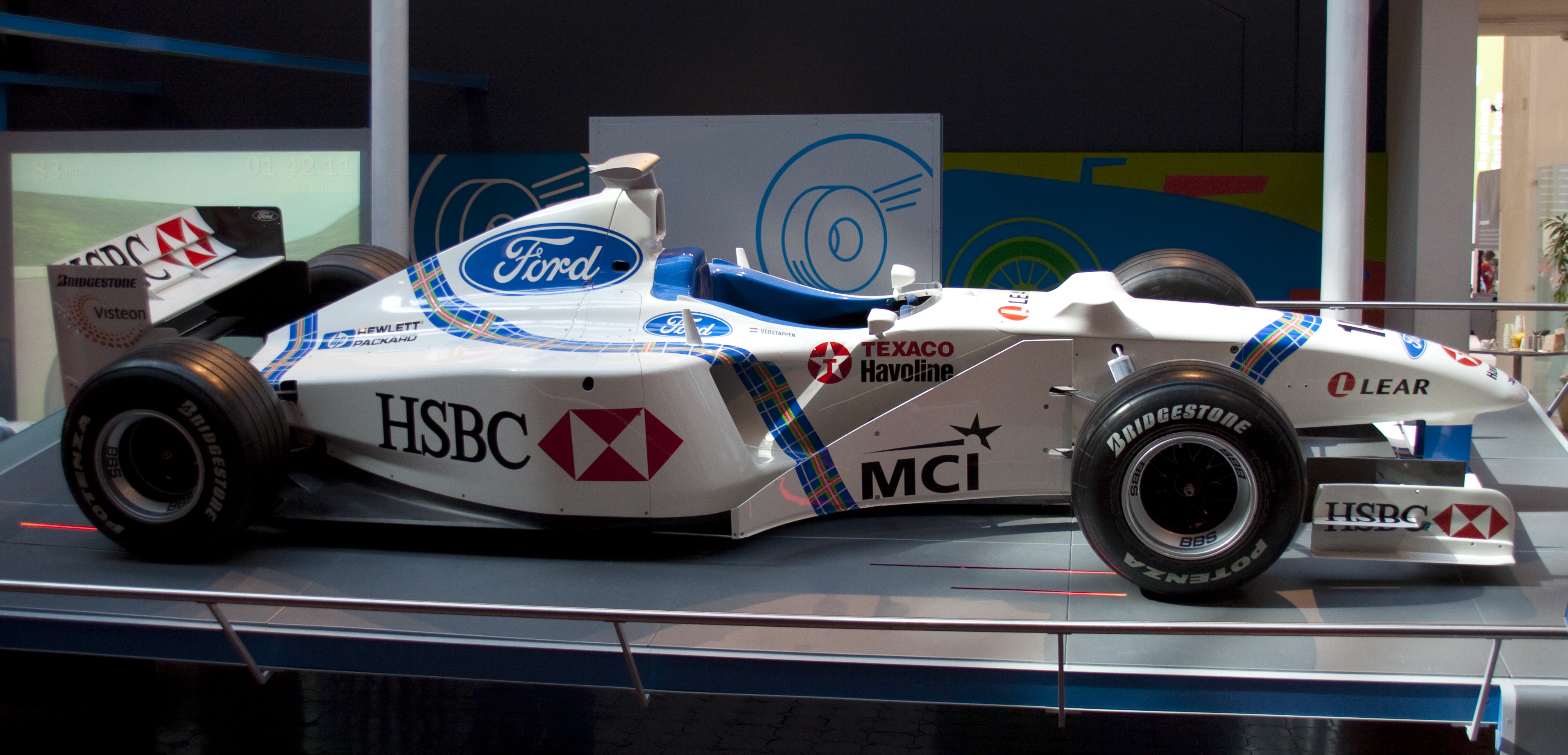 A Stewart SF02 on display at the National Museum of Scotland.